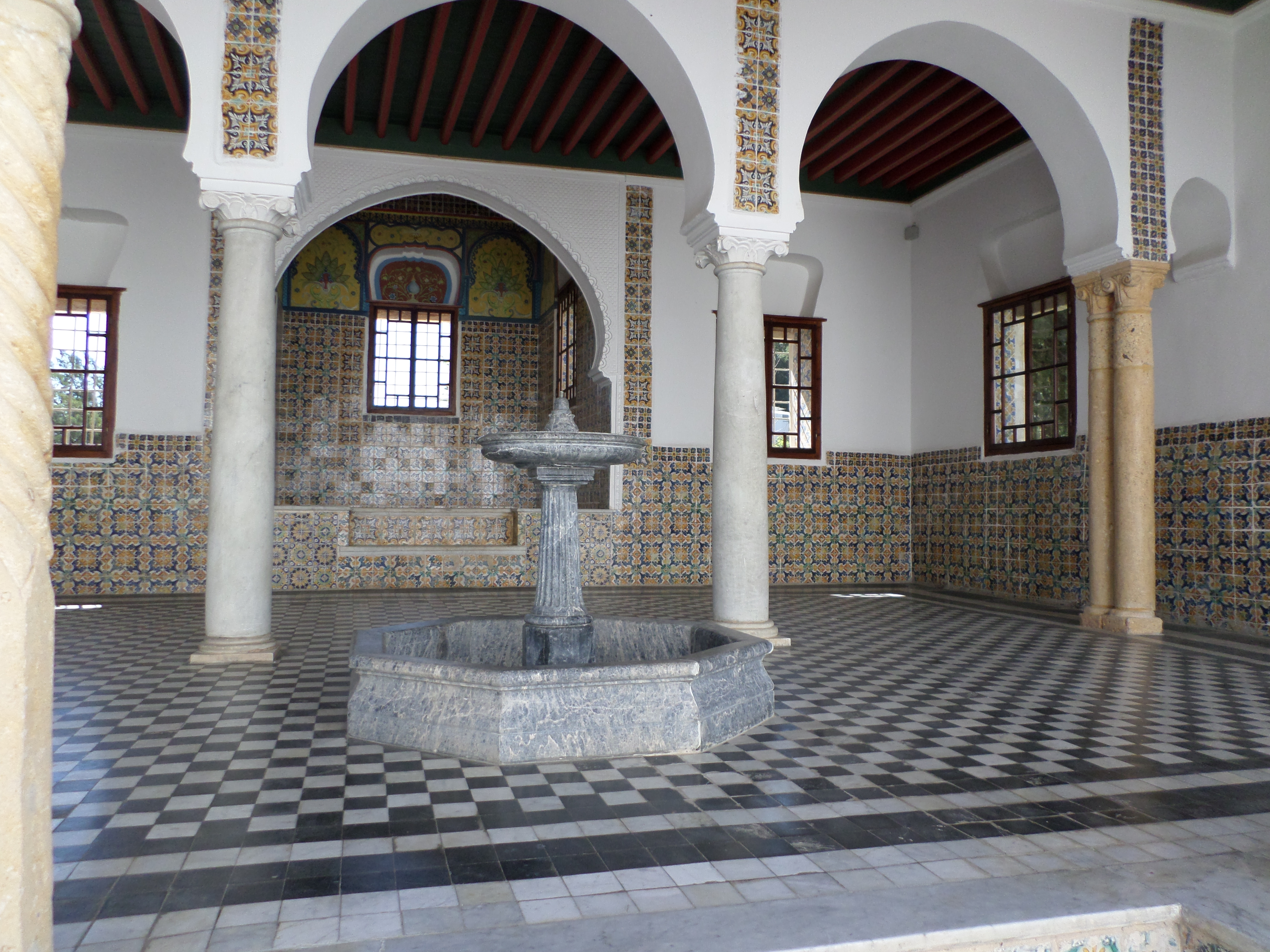 The Bardo National Museum of Prehistory and Ethnography is a national museum located in Algiers, Algeria. It was established in the 1920s